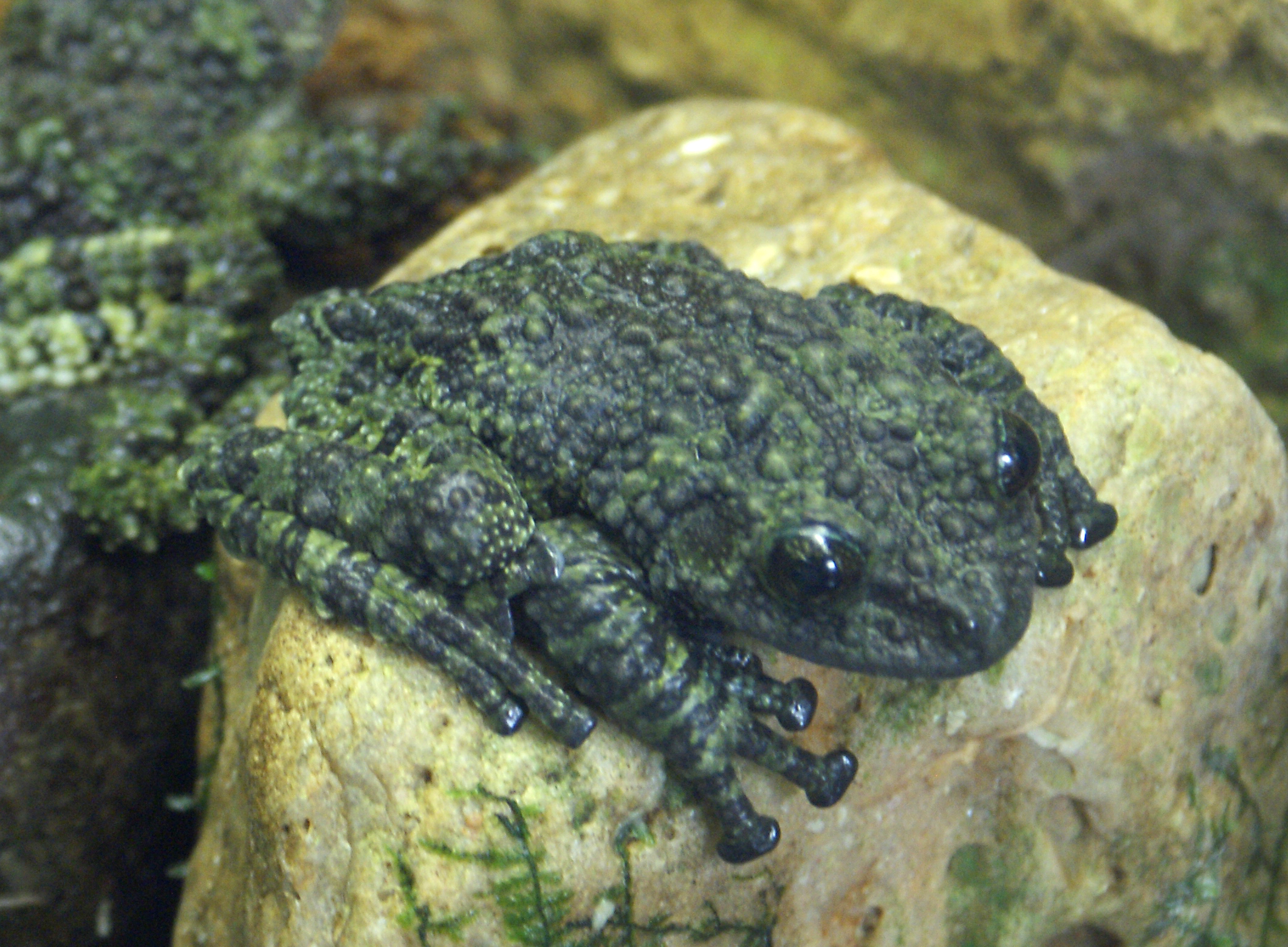 Mossy frog (Theloderma corticale)